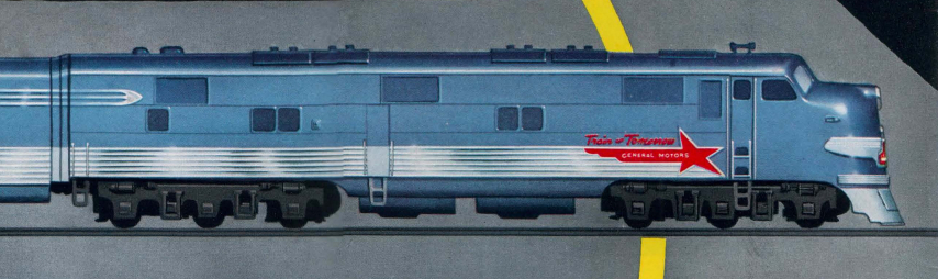 Artist's conception of the locomotive from a promotional brochure distributed by General Motors describing the Train of Tomorrow, a demonstrator built by GM and Pullman-Standard.